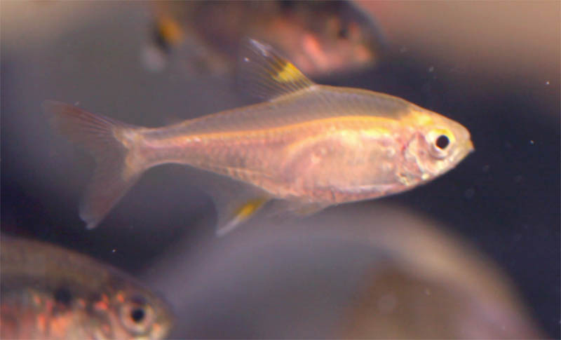 photo by me user debivort July 07